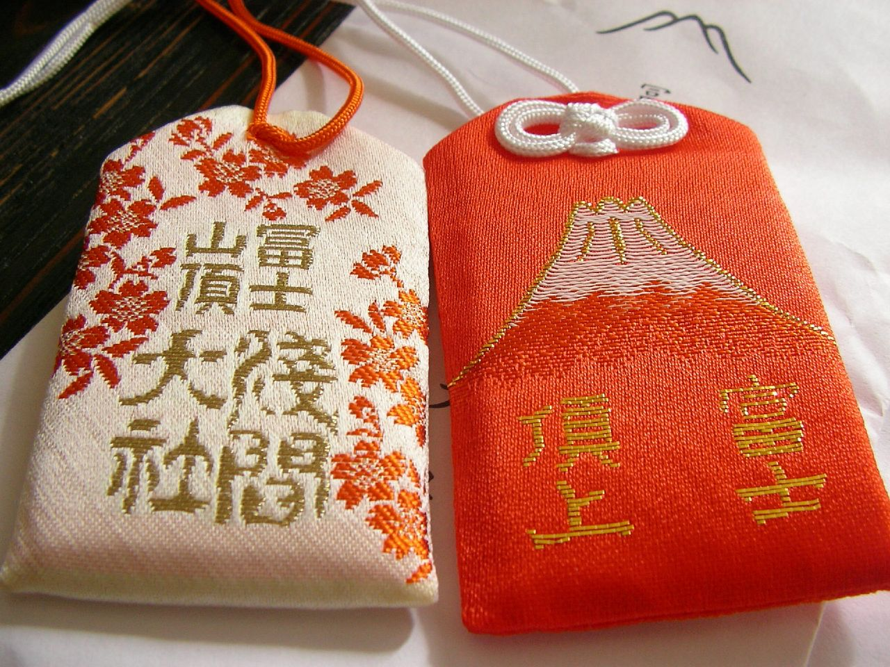 Omamori of Fujisan Hongu Sengen Taisha